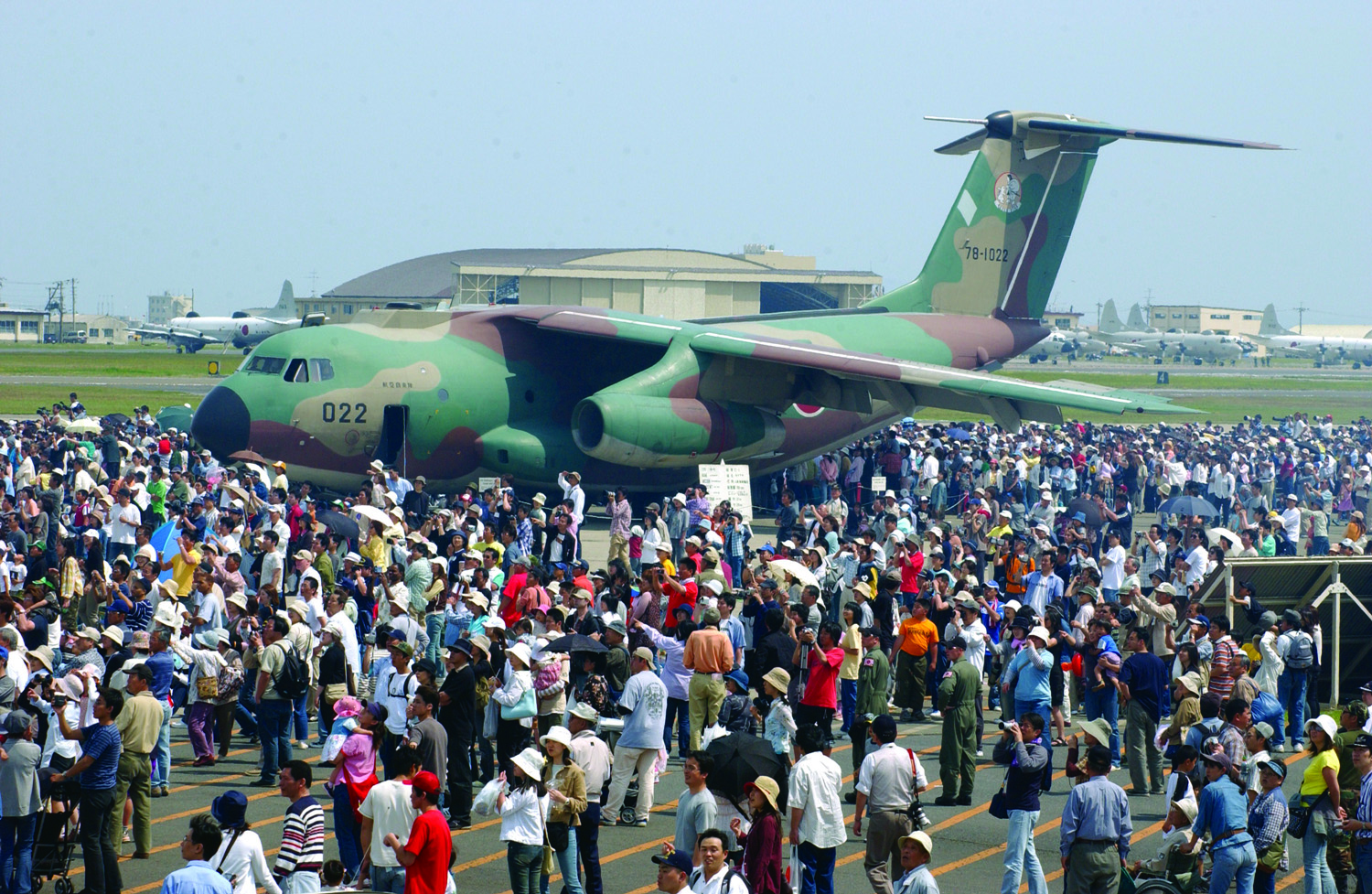 Marine Corps Air Station Iwakuni Friendship Day 2005